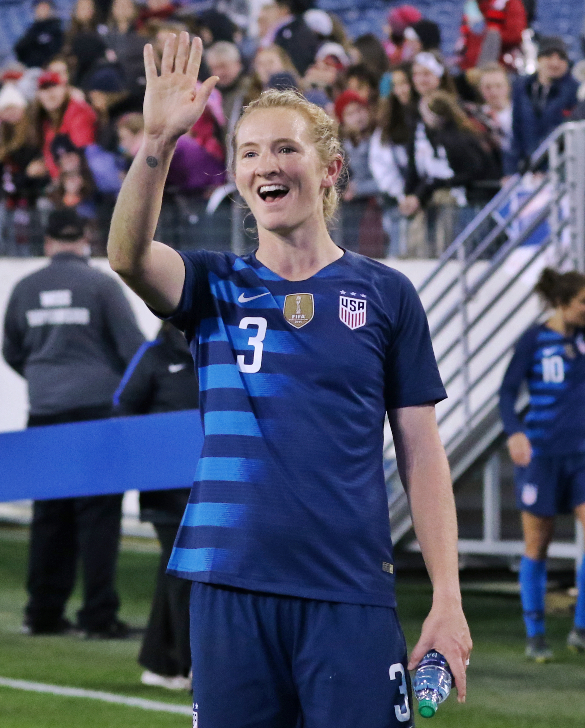 Sam Mewis playing to the United States on March 2, 2019.